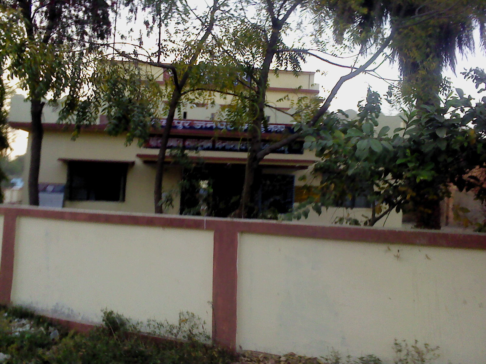 Police station mangalpur that covers 50 other towns which comes in mangalpur and more than 100 villages near mangalpur